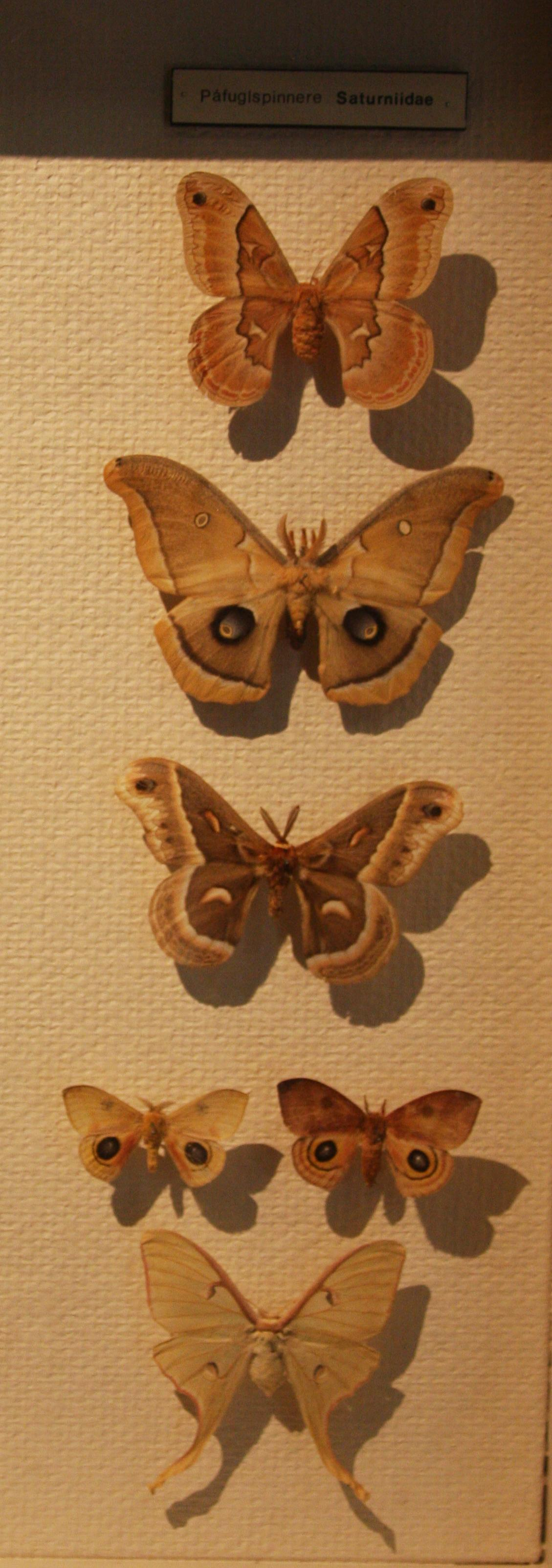 Saturniidae specimens, University of Oslo: Zoological Museum